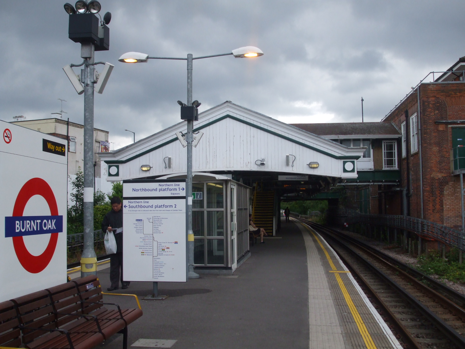 Burnt Oak tube station looking south